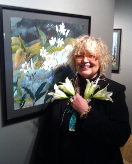 Eleanor Spiess-Ferris holds lillies before one of the gouaches in her show, "Ophelia's Gardens" at Printworks Gallery, Chicago, December 2012.